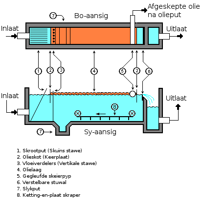 I am the author and drew this diagram of an API separator myself by using Microsoft's Paint program. This is a diagram of an API oil-water separator for treatment of industrial wastewaters. - mbeychok 03:34, 31 July 2007 (UTC)